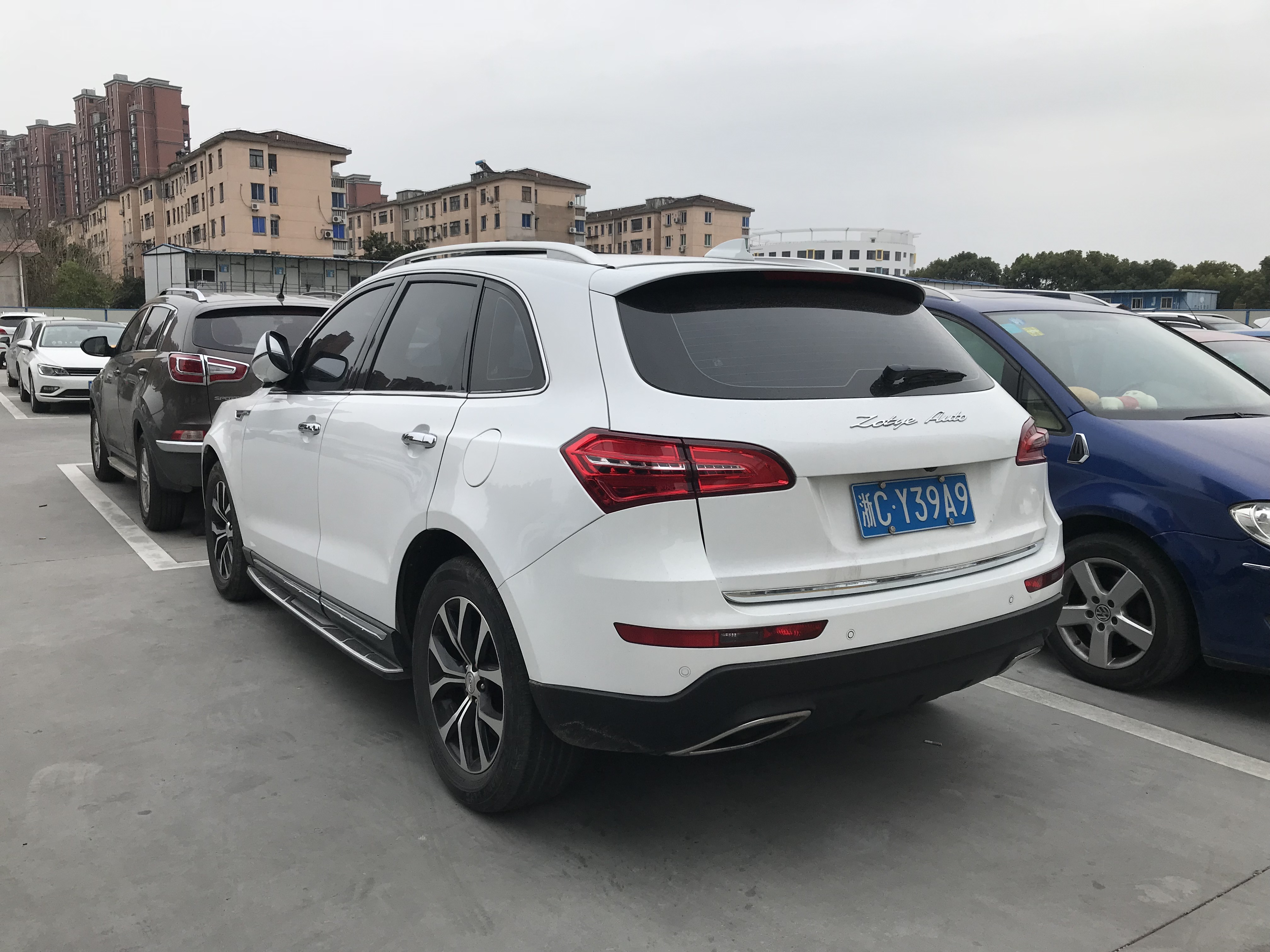 Zotye T600 Sport facelift